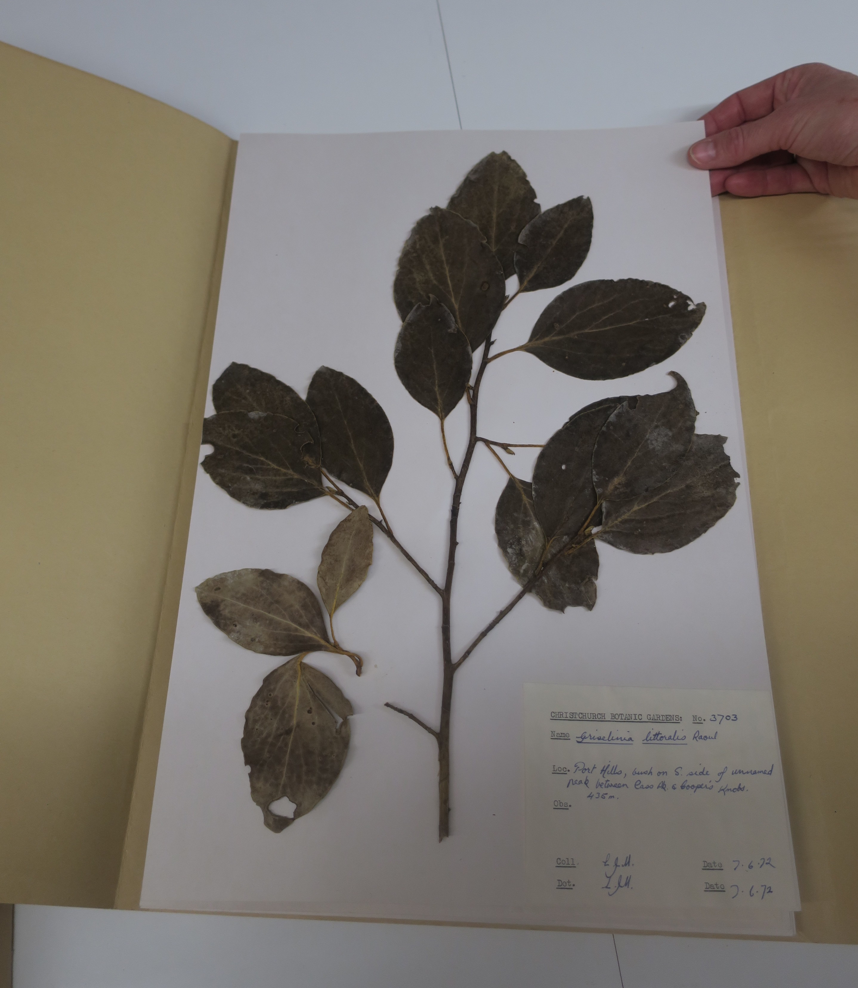 Horticulturalist and botanist, Lawrie Metcalf was the Assistant Curator and Assistant Director at Christchurch Botanic Garden. This pressed Griselinia littoralis specimen was collected by him.